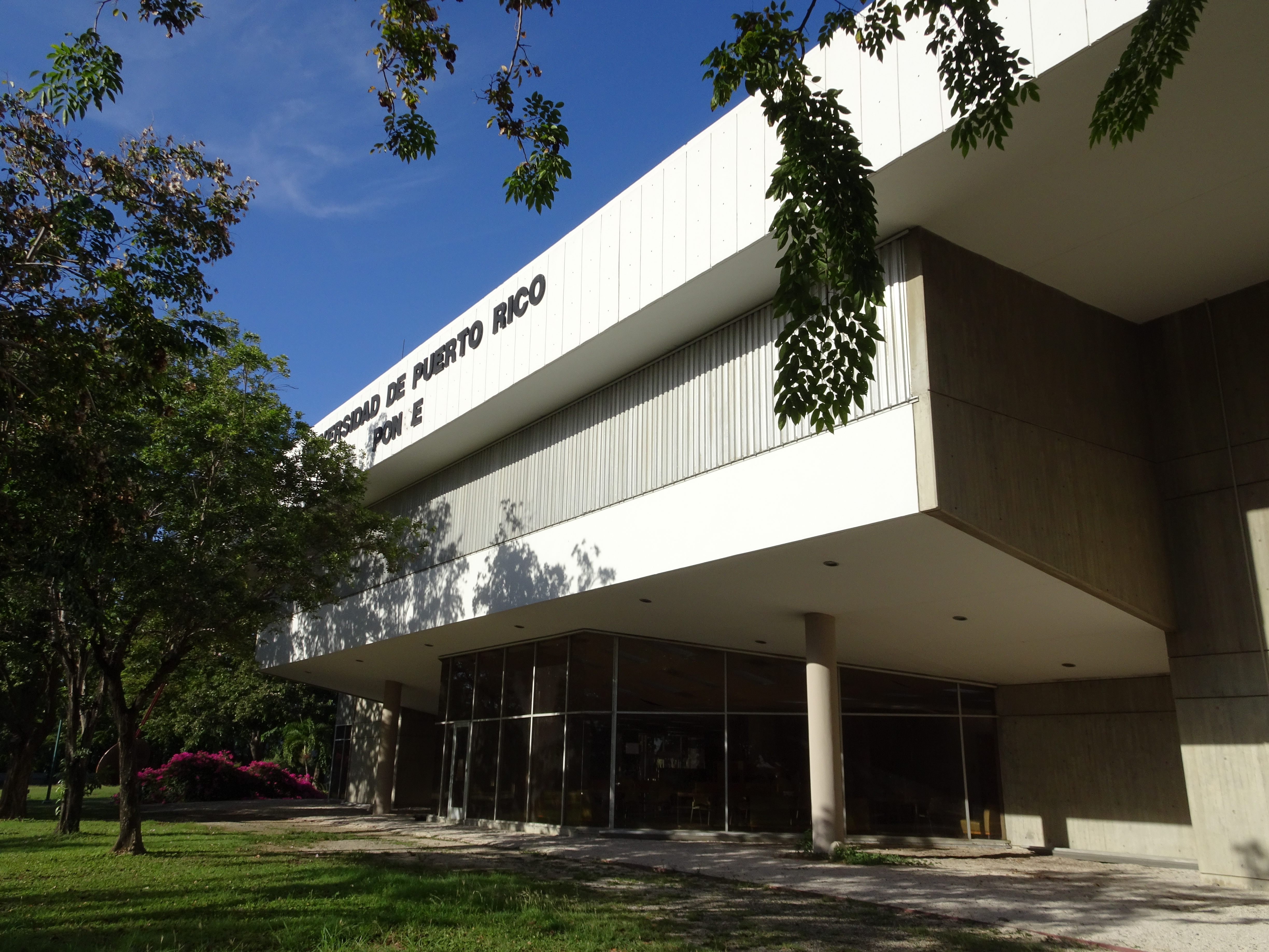 Universidad de Puerto Rico en Ponce, Ponce Bypass (PR-2) y PR-12, Bo. Playa, Ponce, Puerto Rico, mirando al suroeste (DSC02050)